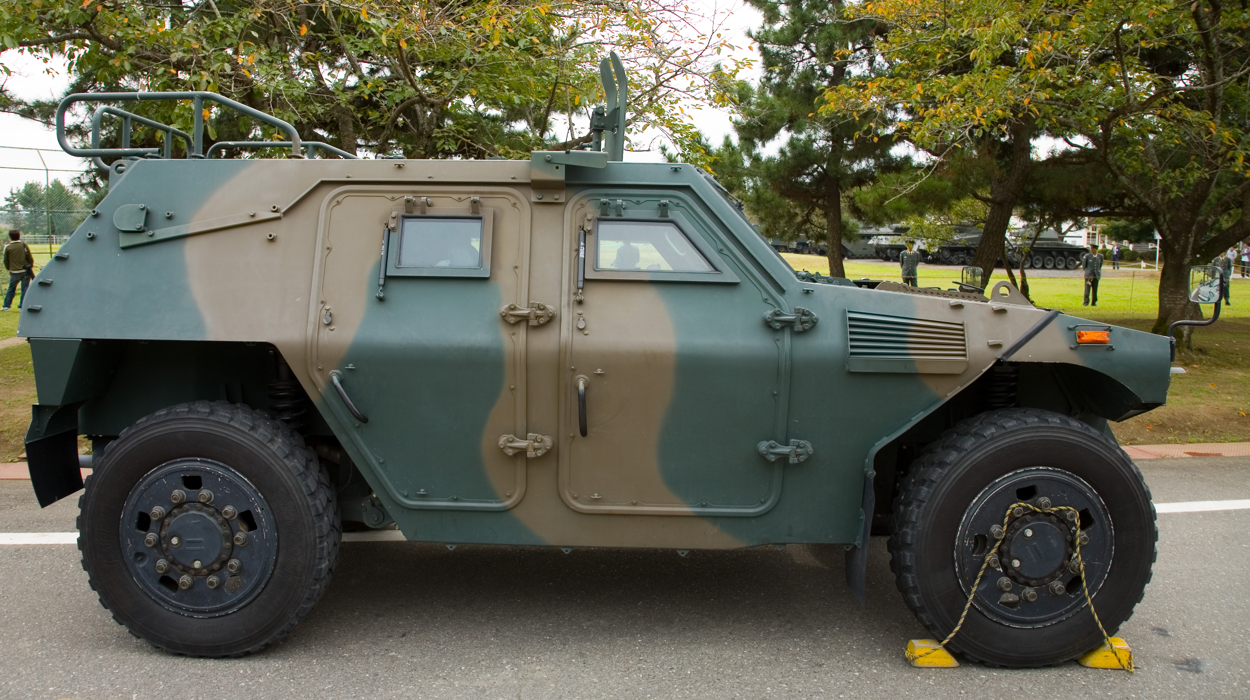 A Komatsu LAV on display at the JGSDF Ordnance School in Tsuchiura, Kanto, Japan.